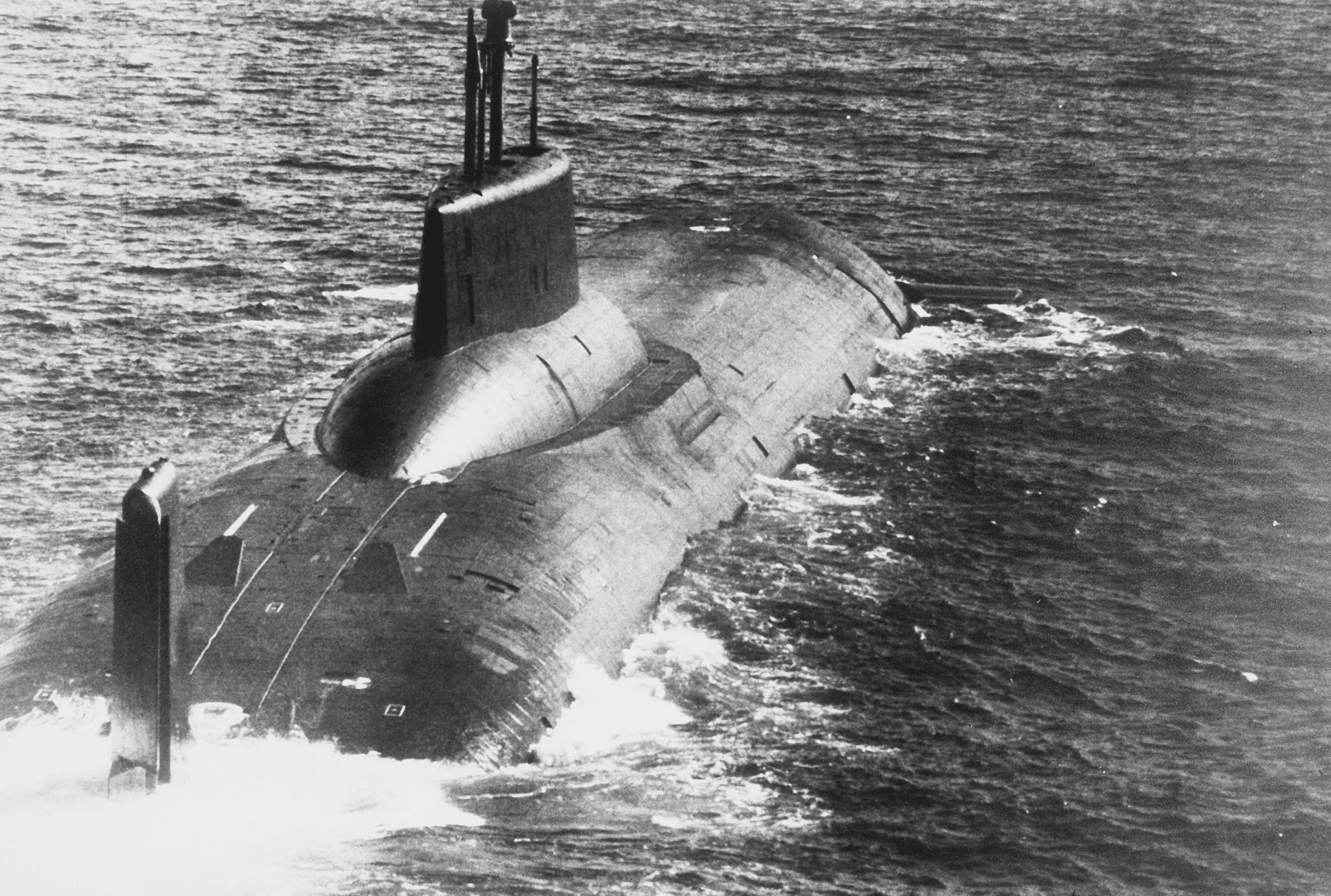 A starboard quarter view of a Soviet Project 941 "Akula" class (NATO reporting name: "Typhoon") ballistic missile submarine underway.